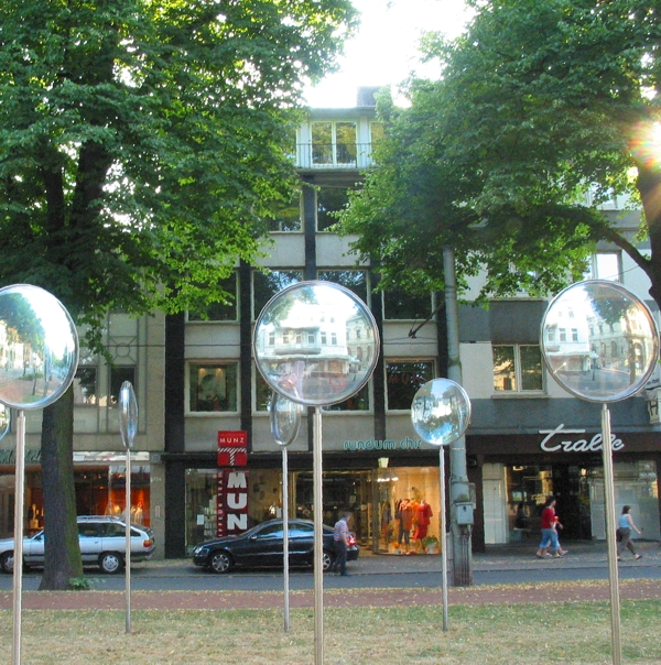 Adolf Luther: Linsenallee